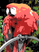 A sample image using sixteen colours from the SAM Coupé hardware palette.